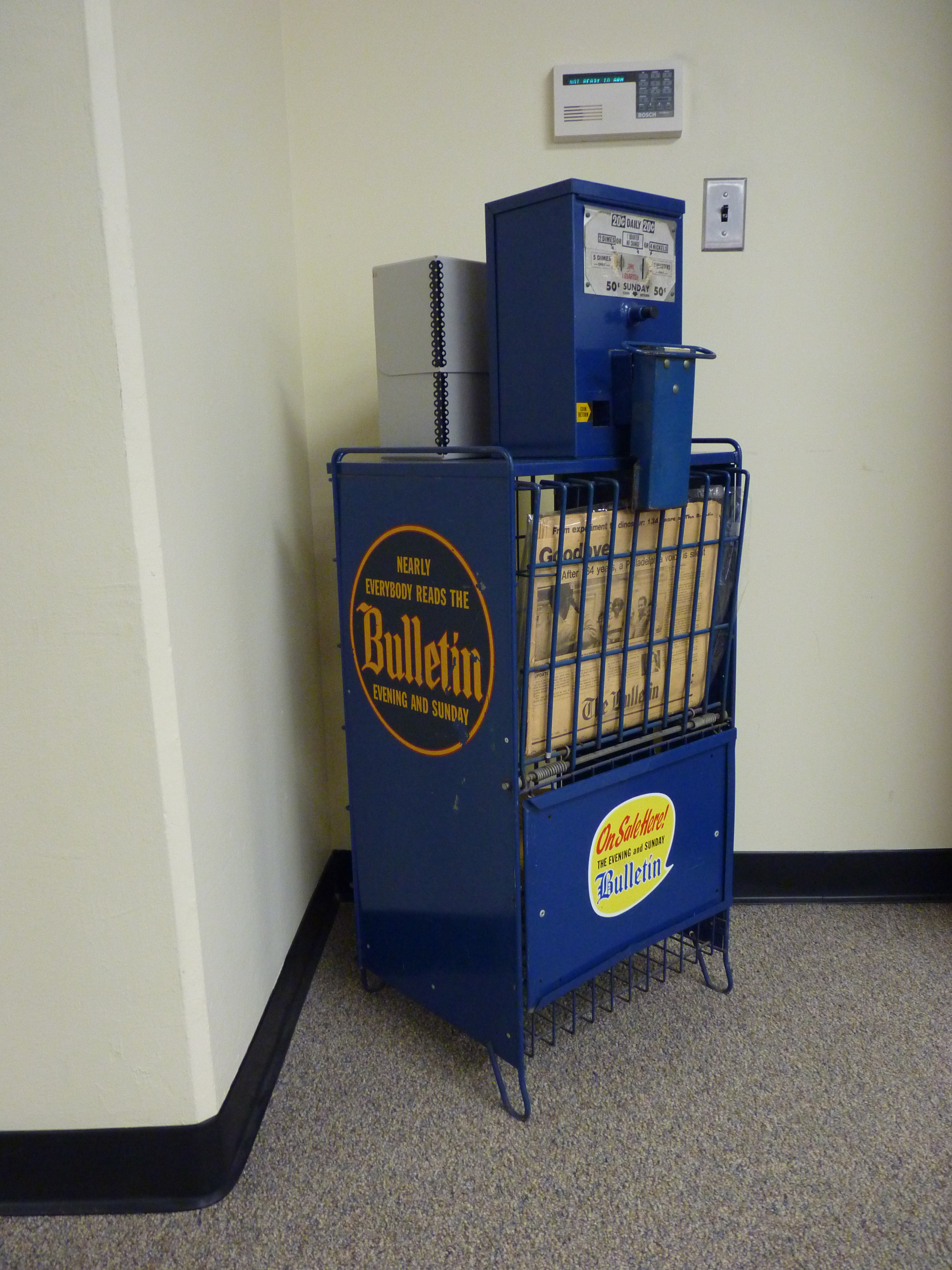 Philadelphia Evening Bulletin newsbox, with last issue, from Temple University archives